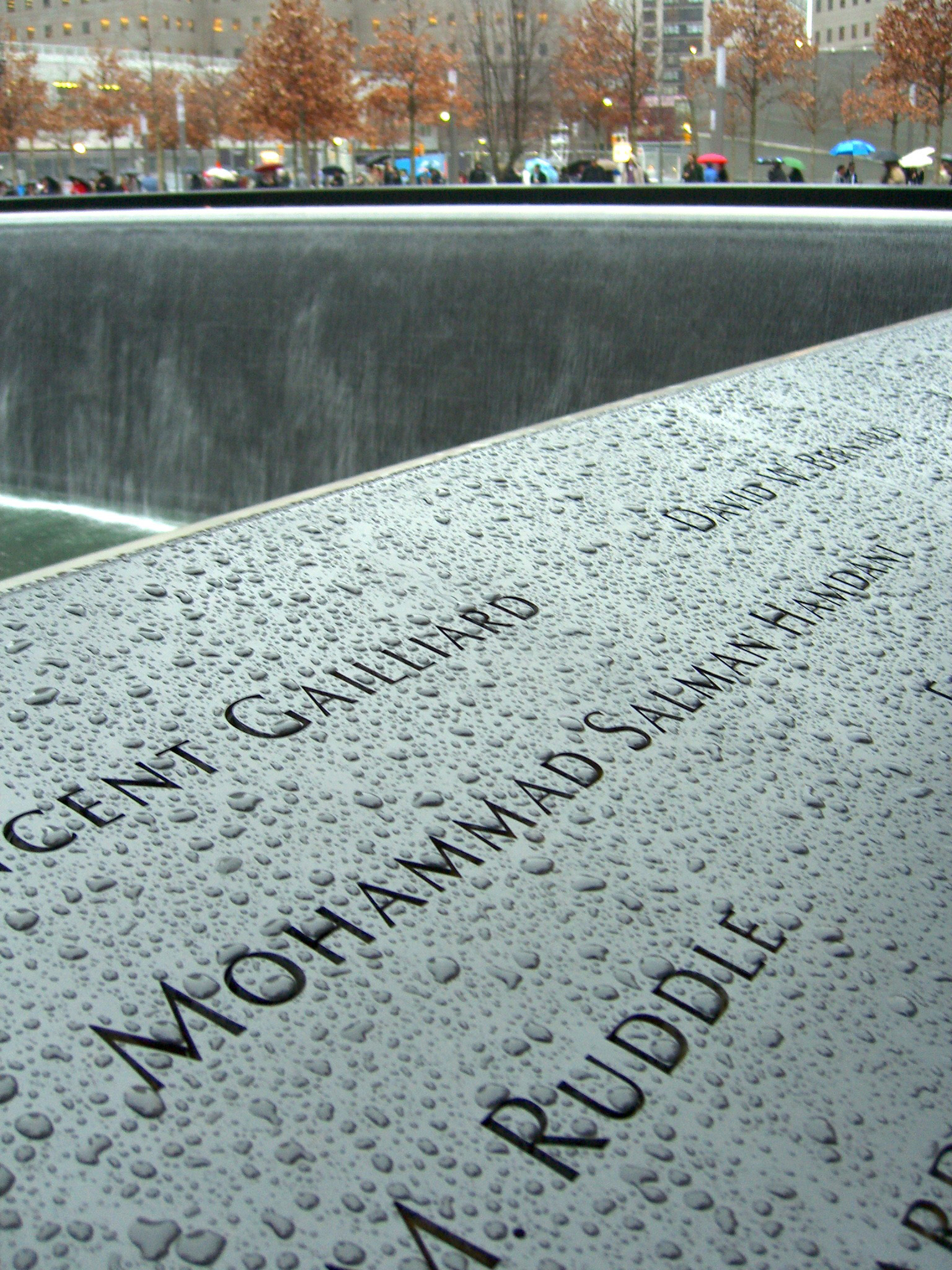 The name of Mohammed Salman Hamdani is among those inscribed on bronze panel S-66 of the South Pool of the National September 11 Memorial in Manhattan, as seen on December 6, 2011. This photo was created by Luigi Novi. If you have any questions, you can contact me by sending me an email or User talk:Nightscream